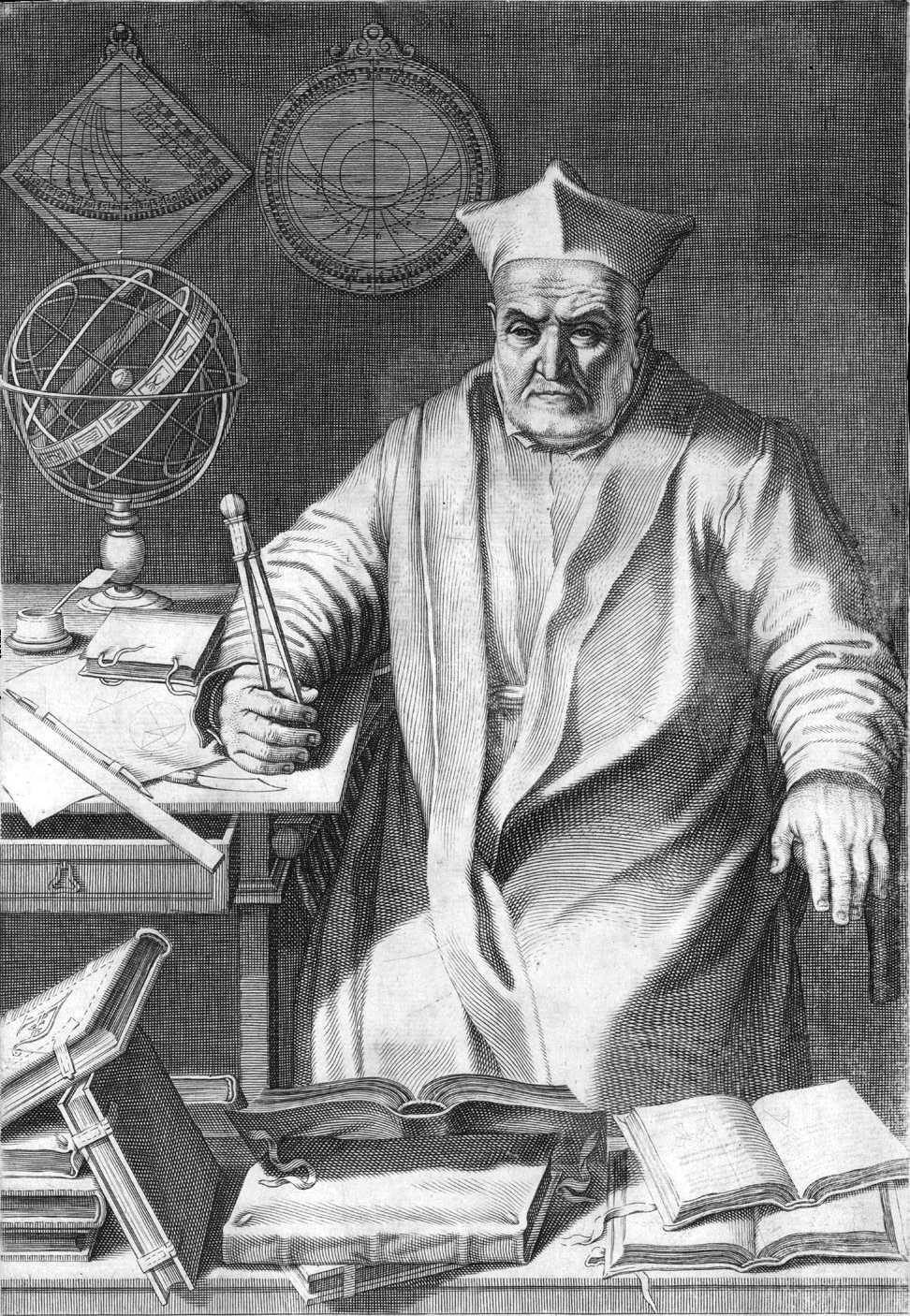 Christopher Clavius (1538–1612), German mathematician and astronomer.